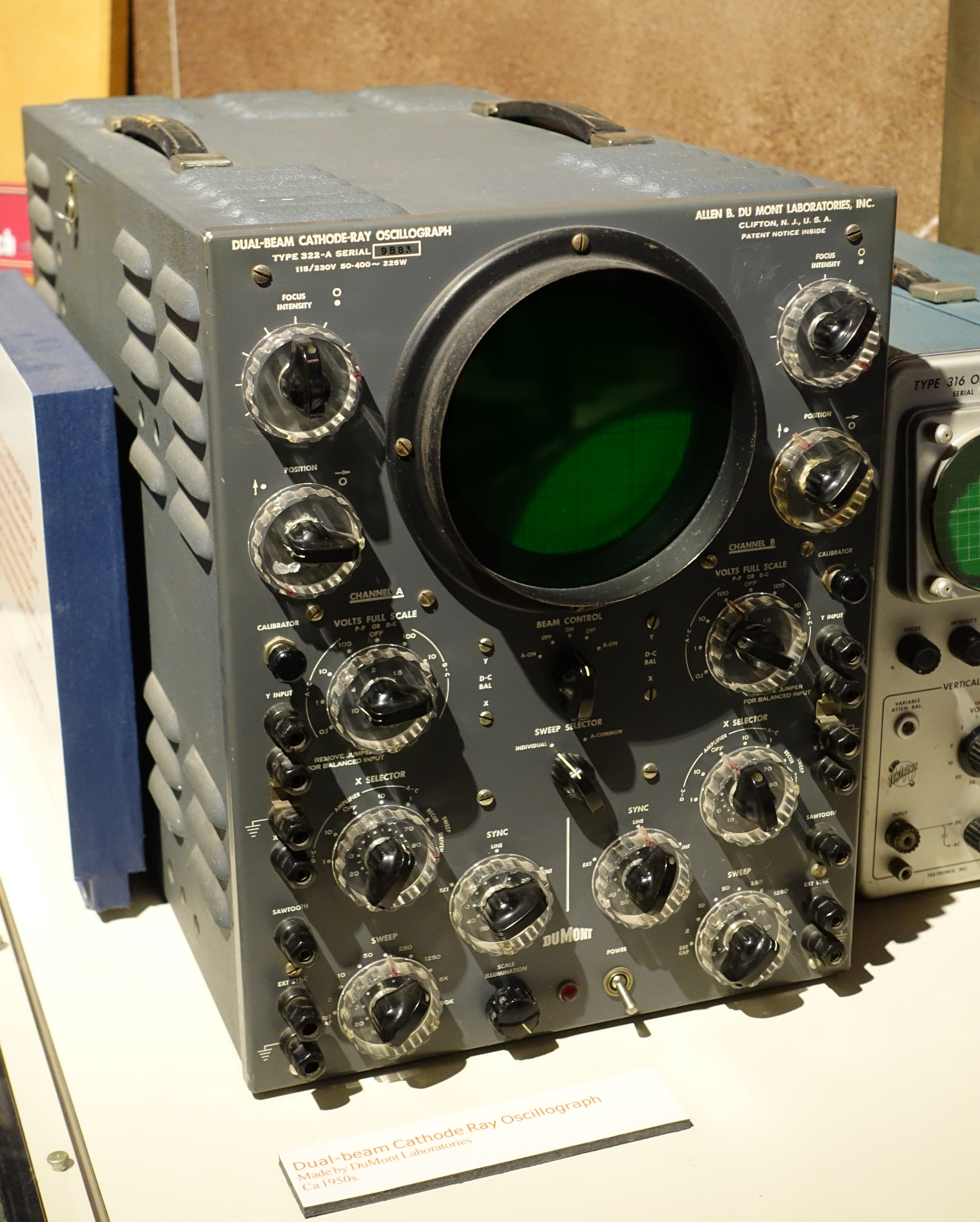 Dual-beam Cathode-Ray Oscillograph, DuMont Laboratories, Clifton, NJ, USA, Type 322-A, S/N 9883, for 115/230 Volt AC, with scale illumination around the knobs, ca. 1950s. Exhibit in the National Electronics Museum, 1745 West Nursery Road, Linthicum, Maryland, USA. All items in this museum are unclassified. The museum permitted photography without restriction.